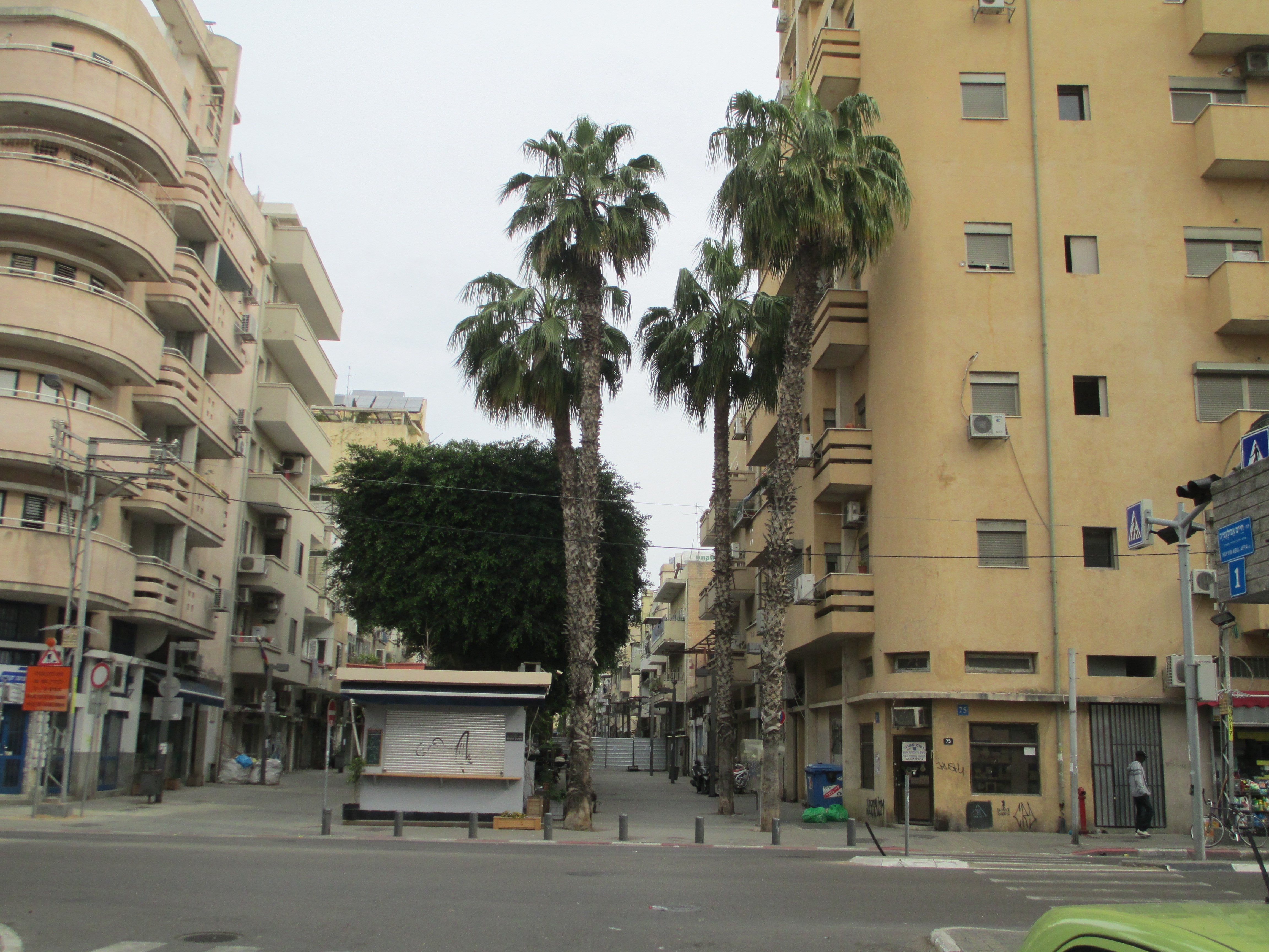 Washington boulevard in Tel Aviv